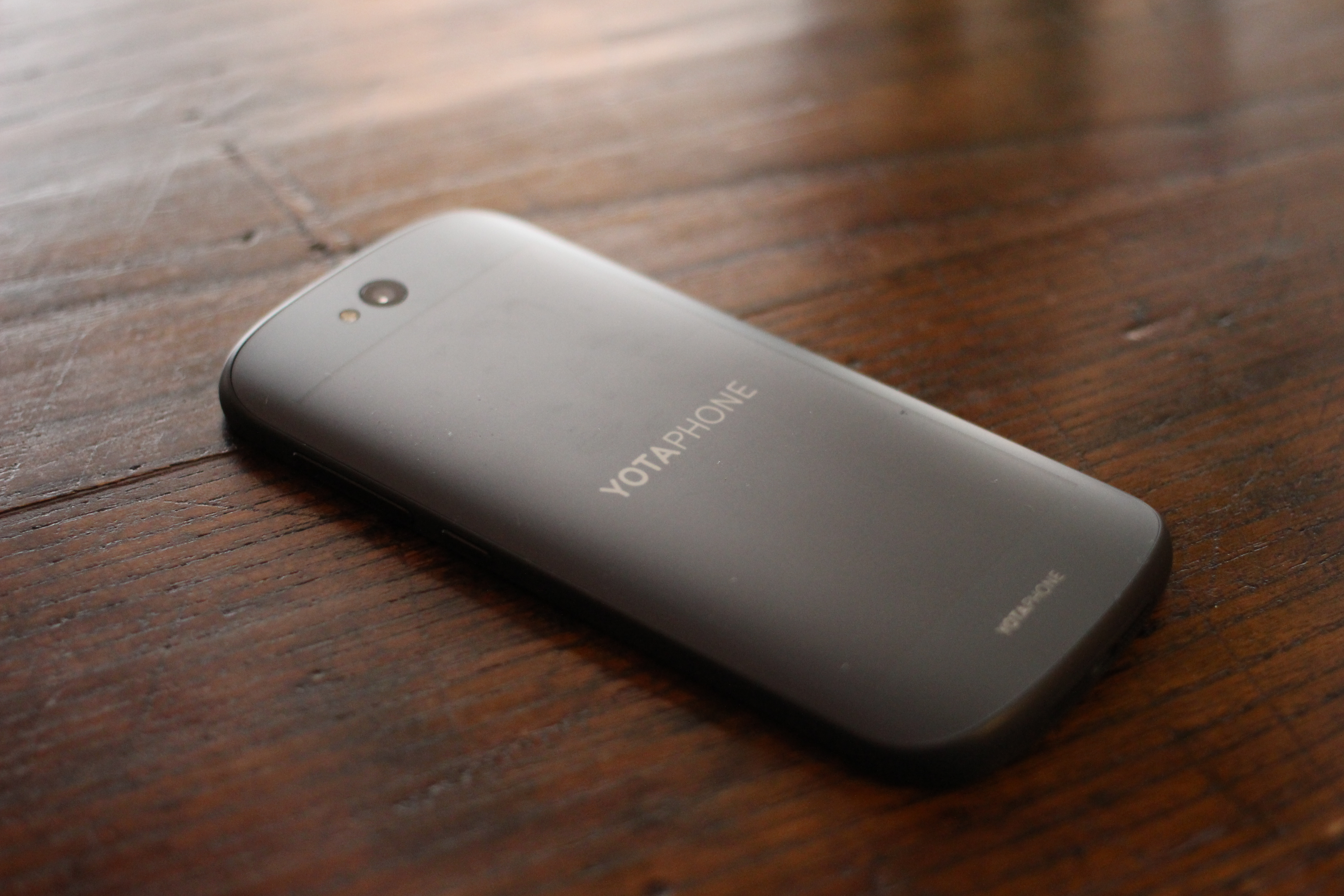 YotaPhone 2